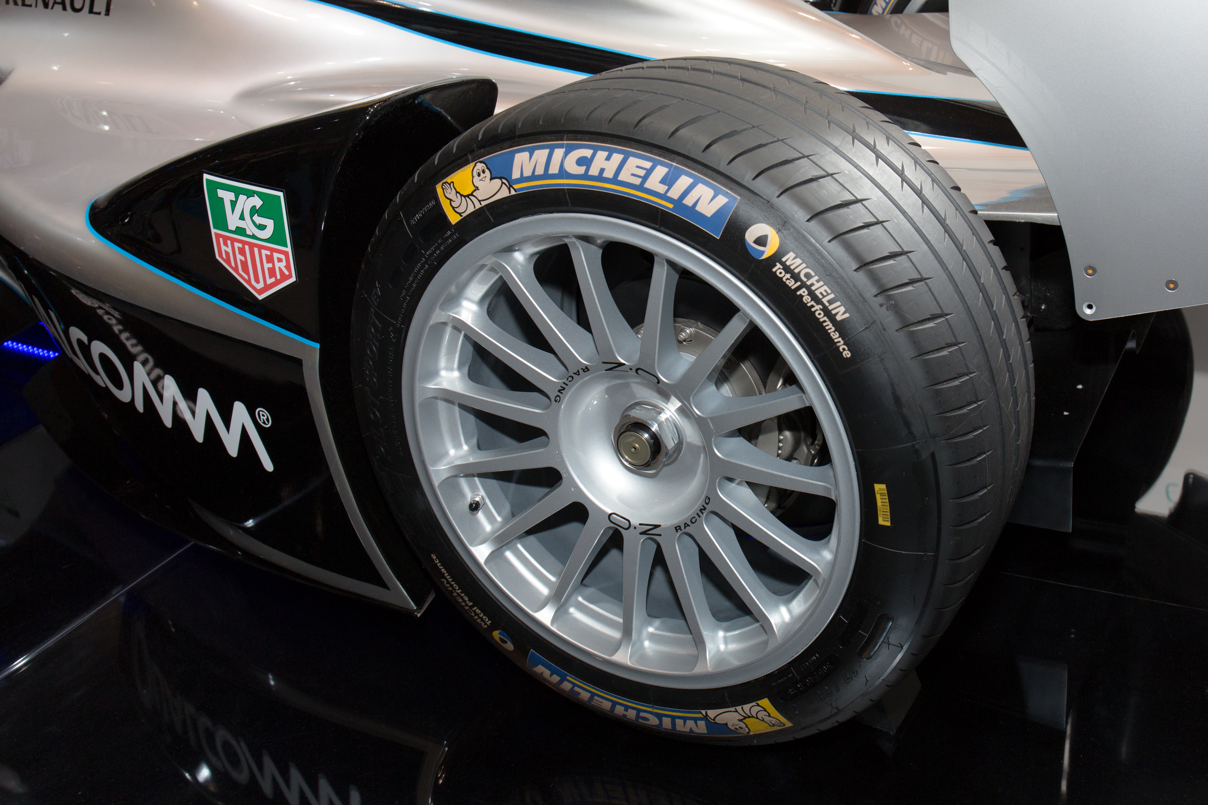 Tokyo Motor Show 2013: Spark-Renault SRT 01E